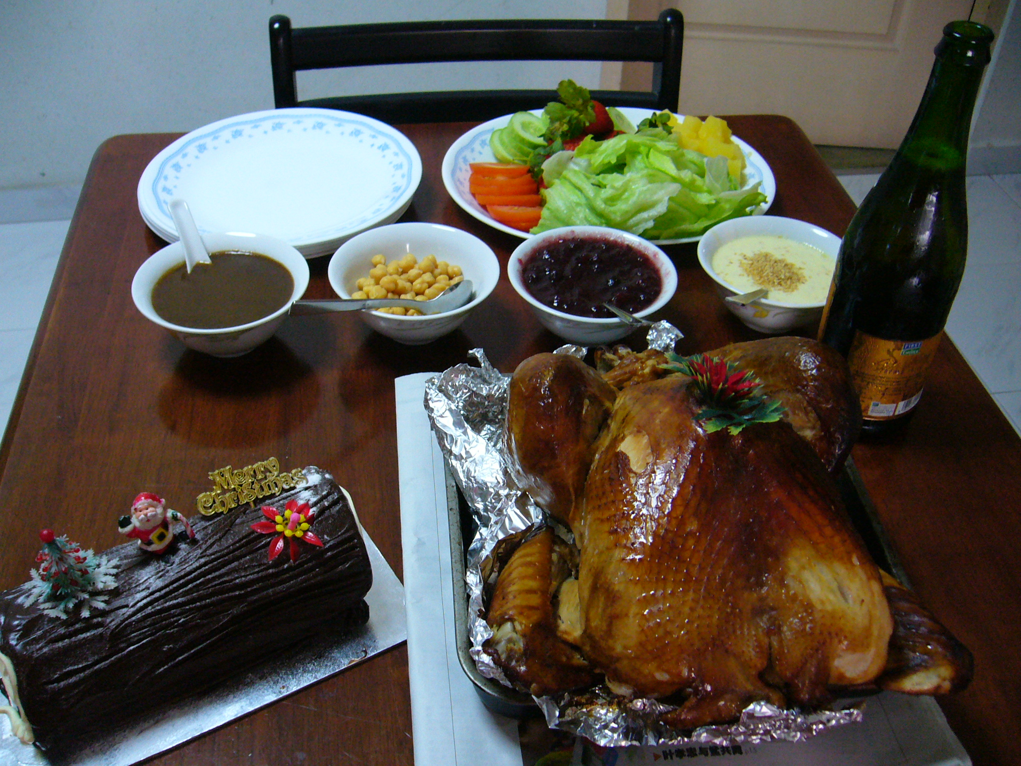 A roast turkey surrounded by other seasonal foods